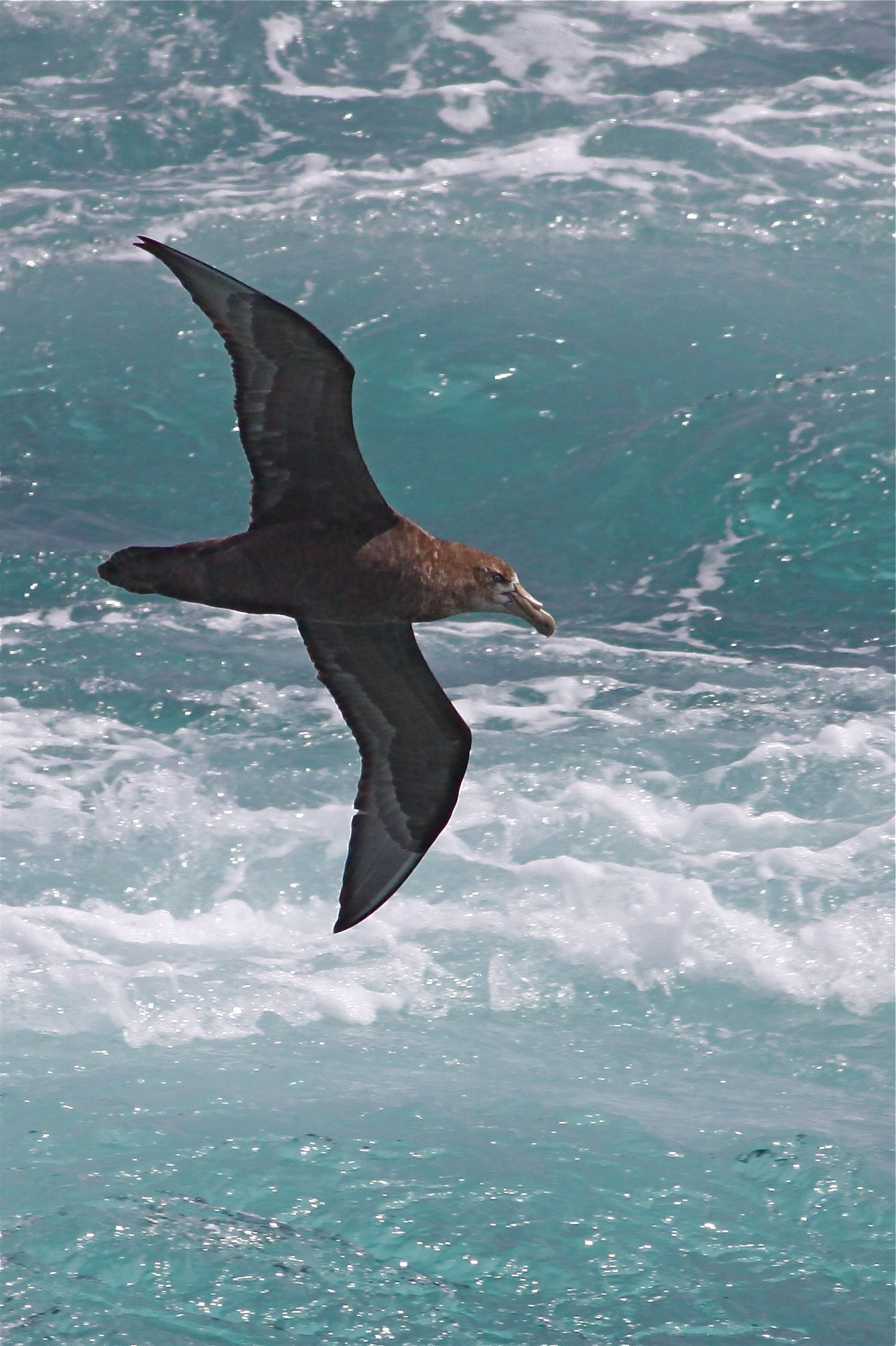 A sub-adult Southern Giant Petrel flying north-west of Falkland Islands.